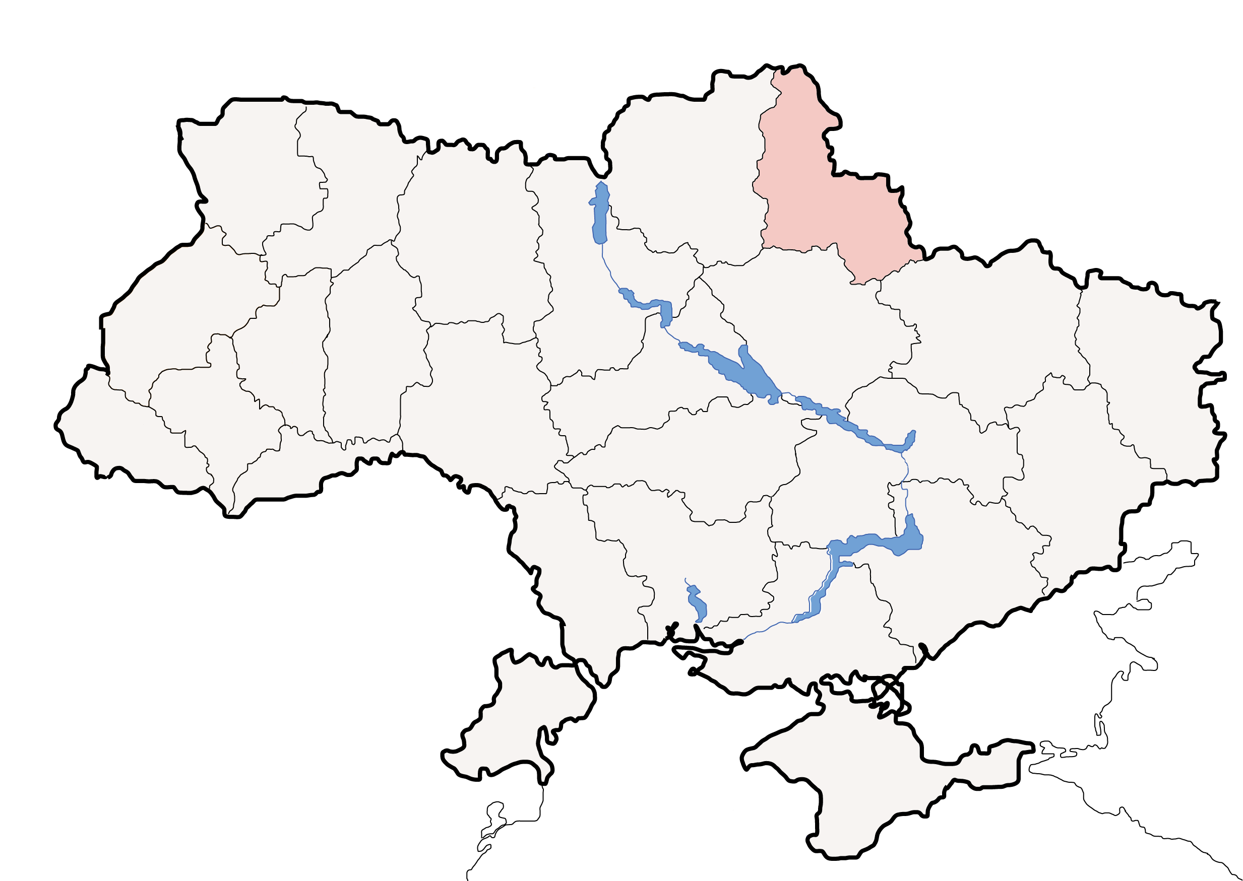 Political map of Ukraine, highlighting Sumy Oblast